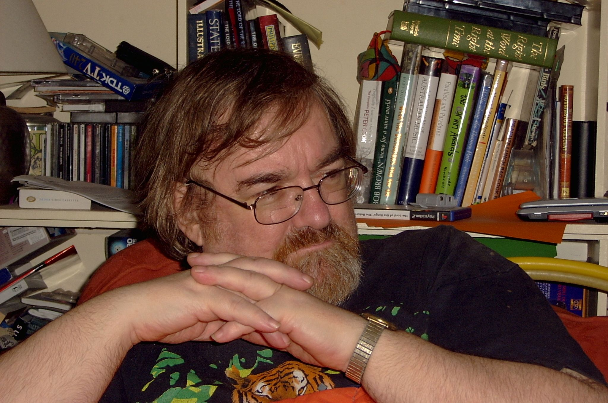 Snapshot of the composer Ian Cugley